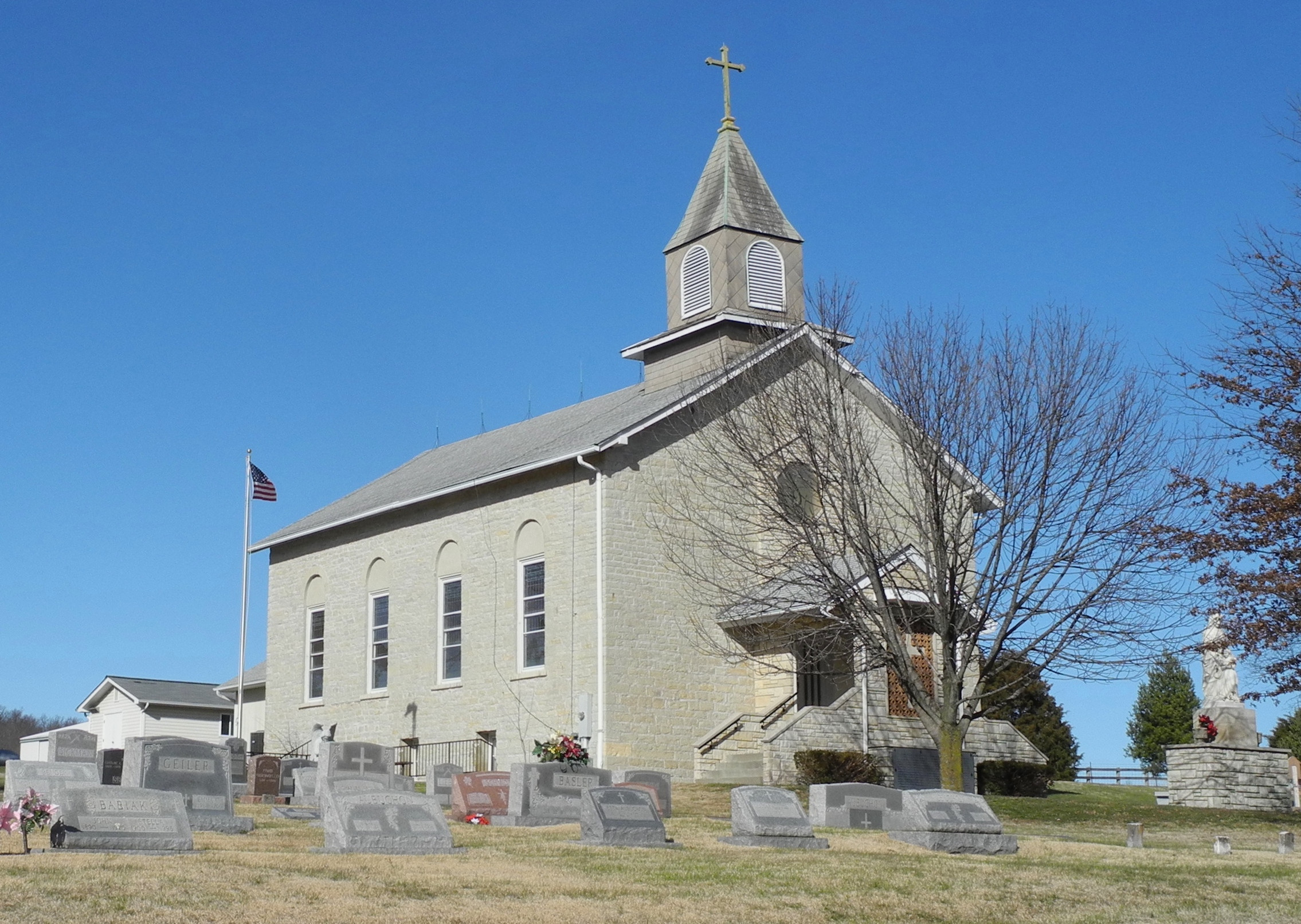 St. Anne Catholic Church in French Village, Missouri. (The name of the church is "St. Anne", contrary to the spelling in the file name.[1][2][3])